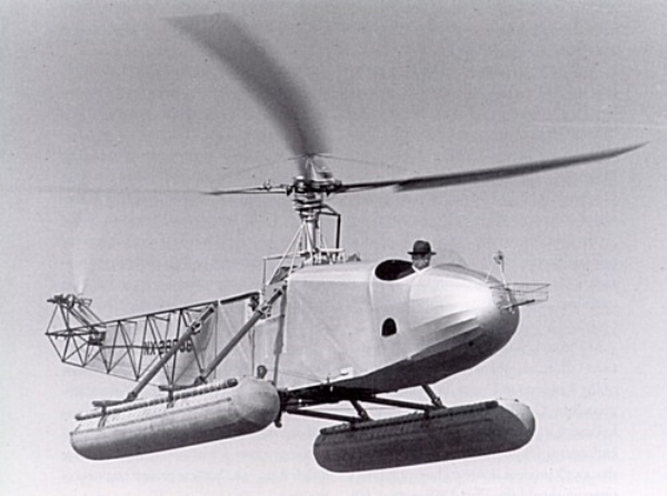 Sikorsky 300 (VS-300A, NX 28996)